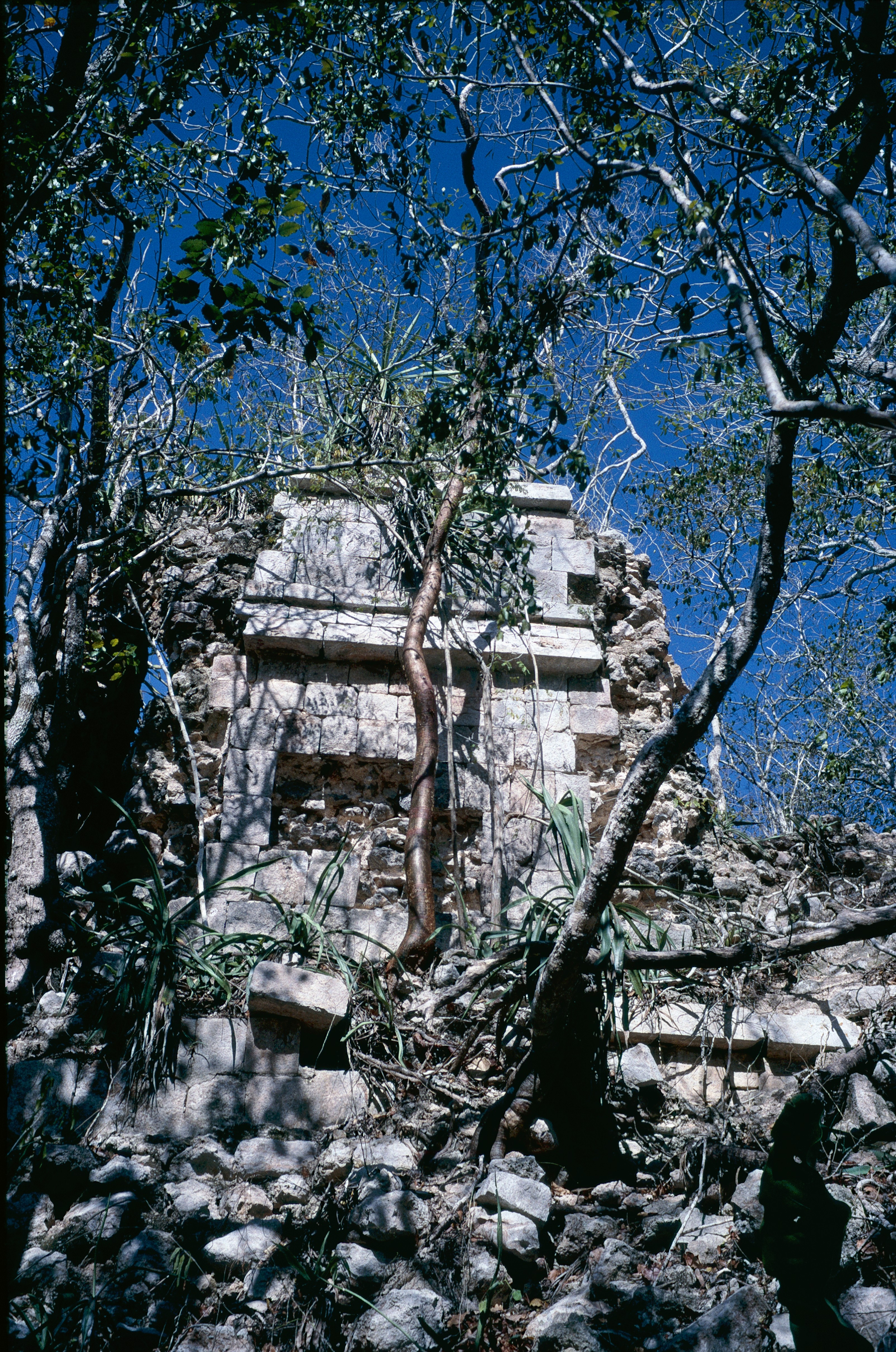 Nohpat, Yucatán, Mexico